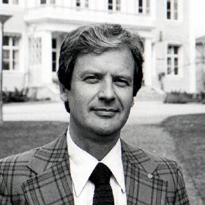 Dan Isacson, chancellor at the university in Kalmar.